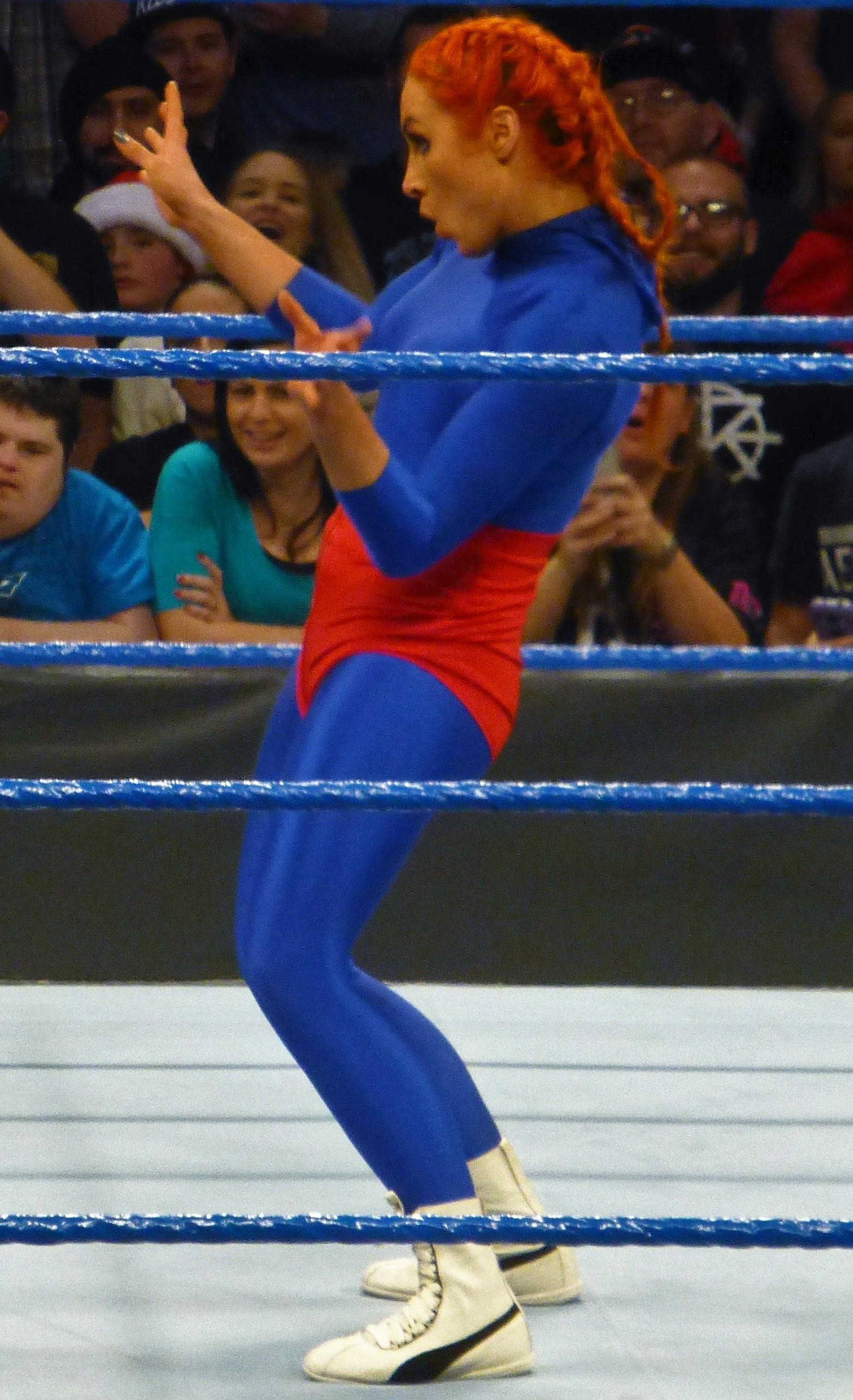 La Luchadora removes her mask to reveal she's Becky Lynch